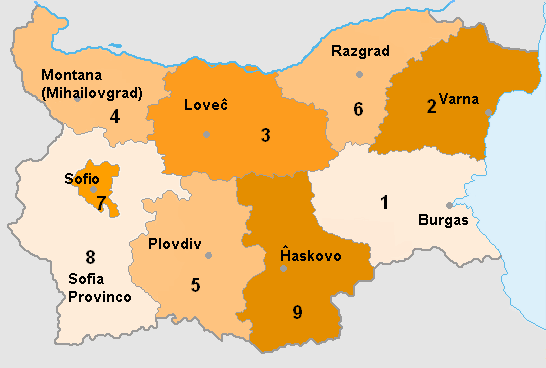 A map of the provinces of Bulgaria in the period of 1987-1998, labelled in Esperanto